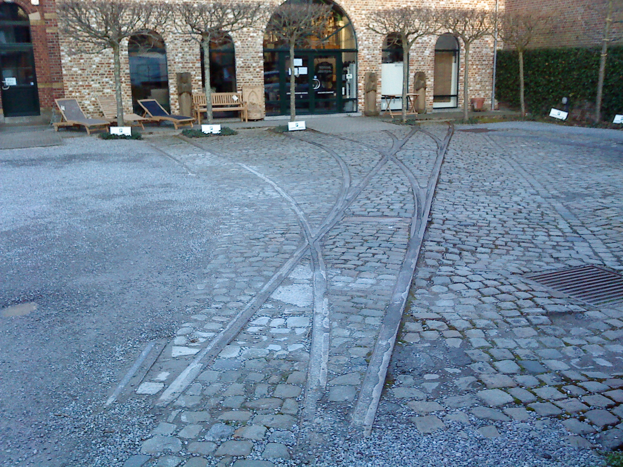 SNCV metre gauge tracks in front of the old Uccle-Vivier d'Oie depot in Brussels (SNCV Brabant). Possibly the last visible tracks of the SNCV in Brussels (2010).